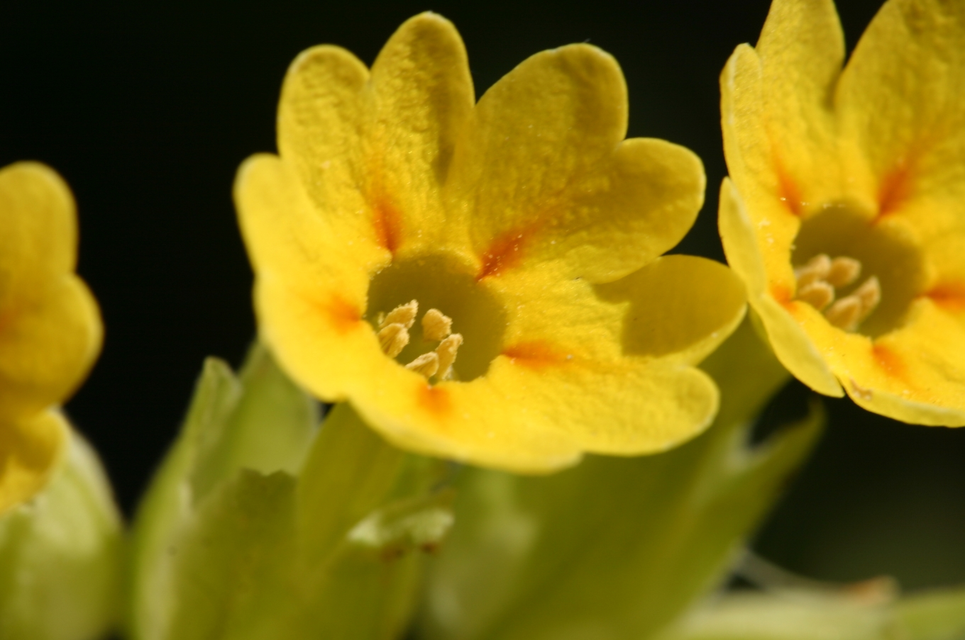 Primula veris: Flower.